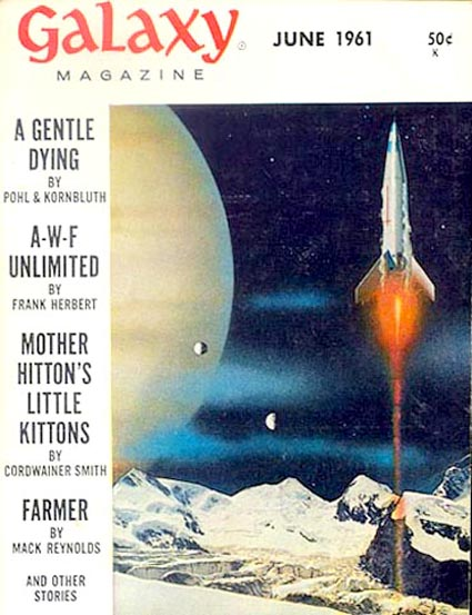 Cover of Galaxy, June 1961